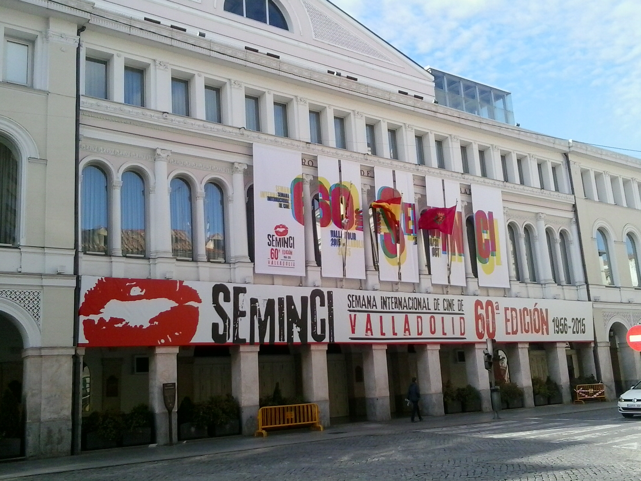 Outside of the Teatro Calderón in Valladolid (Spain) during the 60th Seminci (2015)